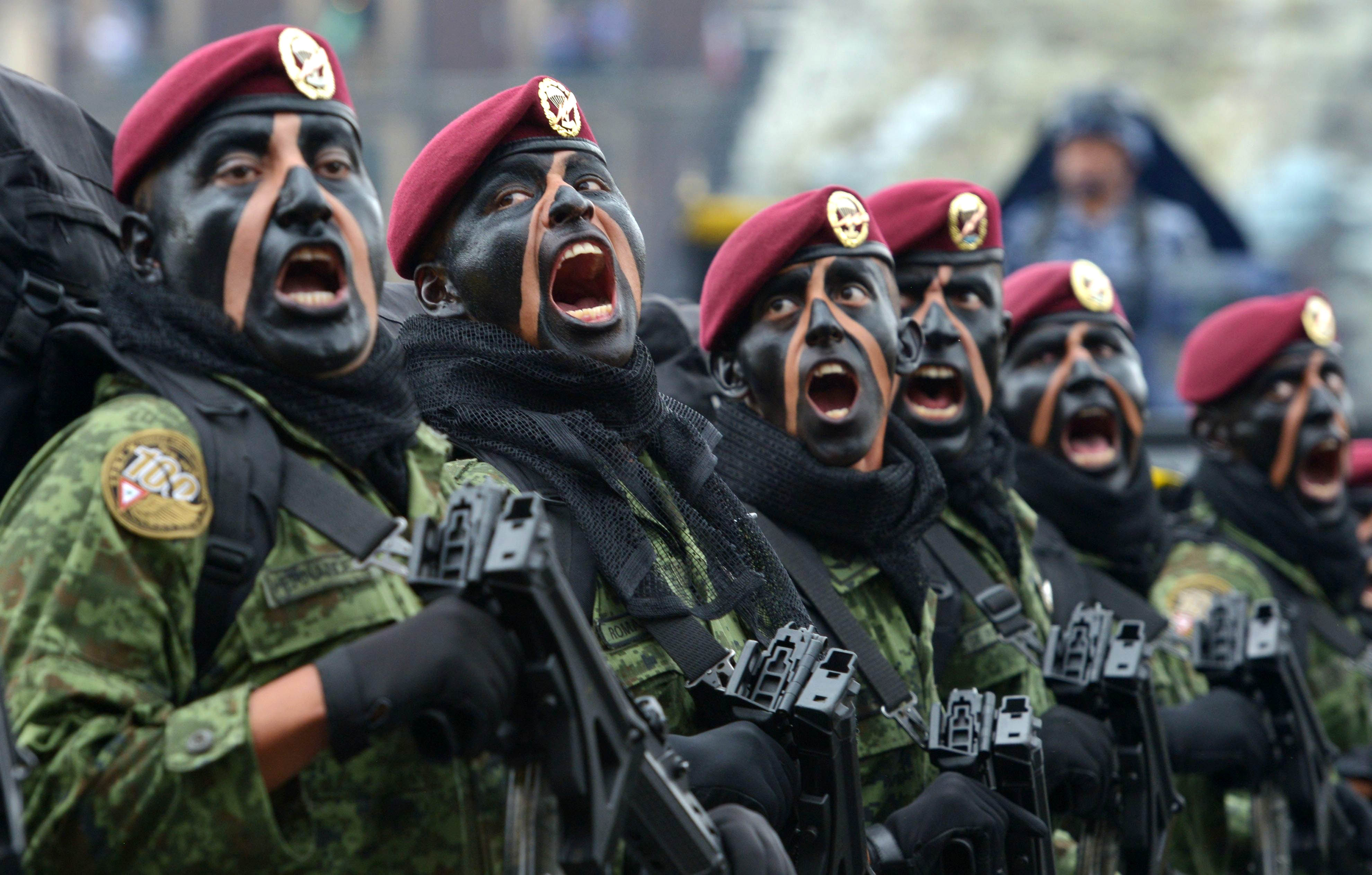 Desfile Militar Conmemorativo del CCV Aniversario del Inicio de la Independencia de México. Ciudad de México. 16 de septiembre de 2015.